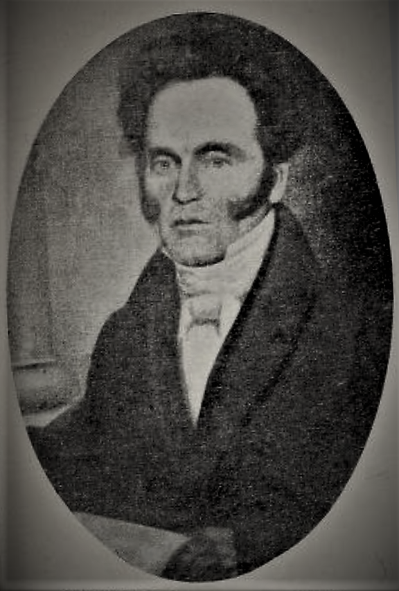 derivative work - enhanced and cropped copy of photograph of a portrait of Mahlon Burwell circa 1830 by an unknown artist, published in C.O. Ermatinger, The Talbot Regime (St Thomas, Ont., 1904), which is in the public domain - author died 1921